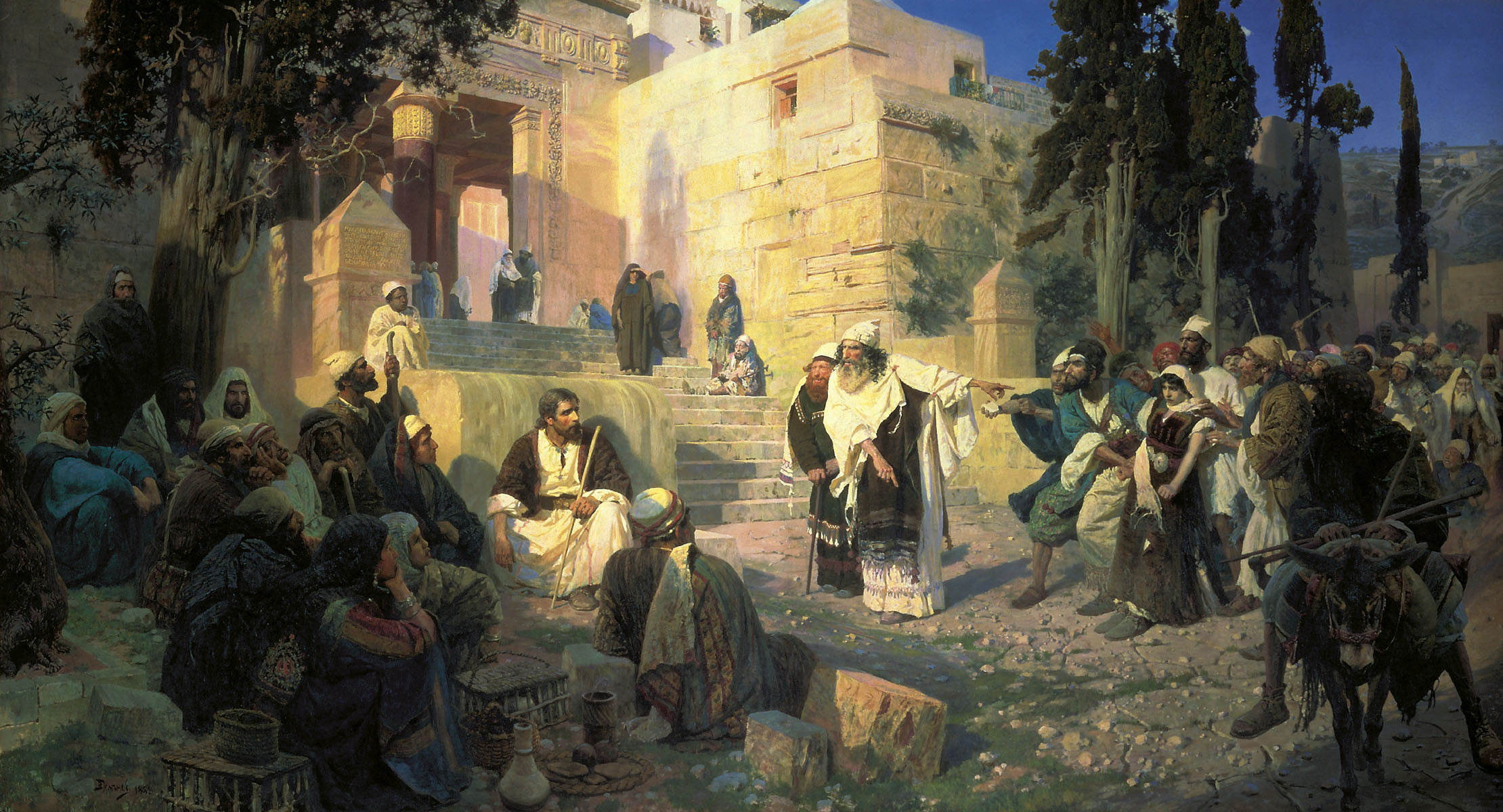 A depiction of Jesus and the woman taken in adultery